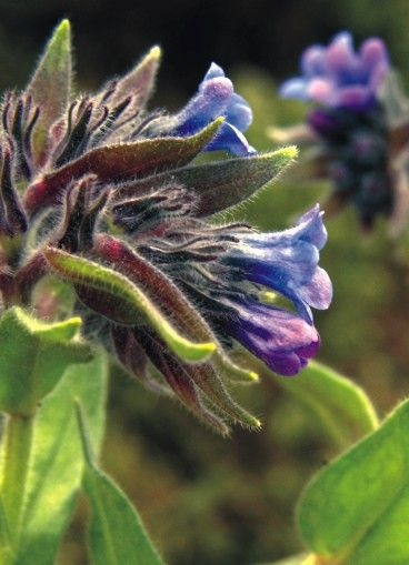 Alkanna noneiformis